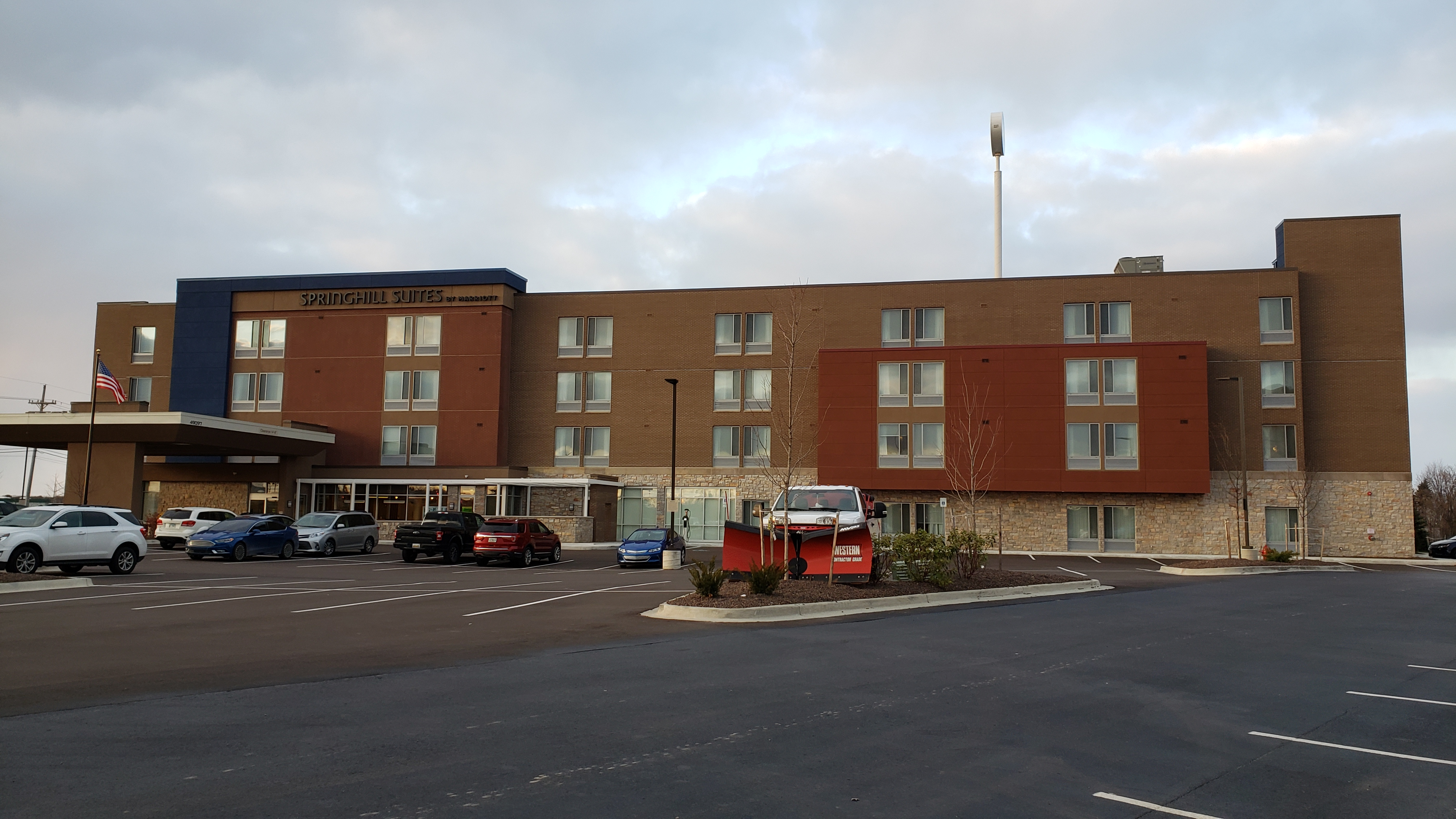 Typical newer SpringHill Suites by Marriott hotel, Wixom, Michigan.